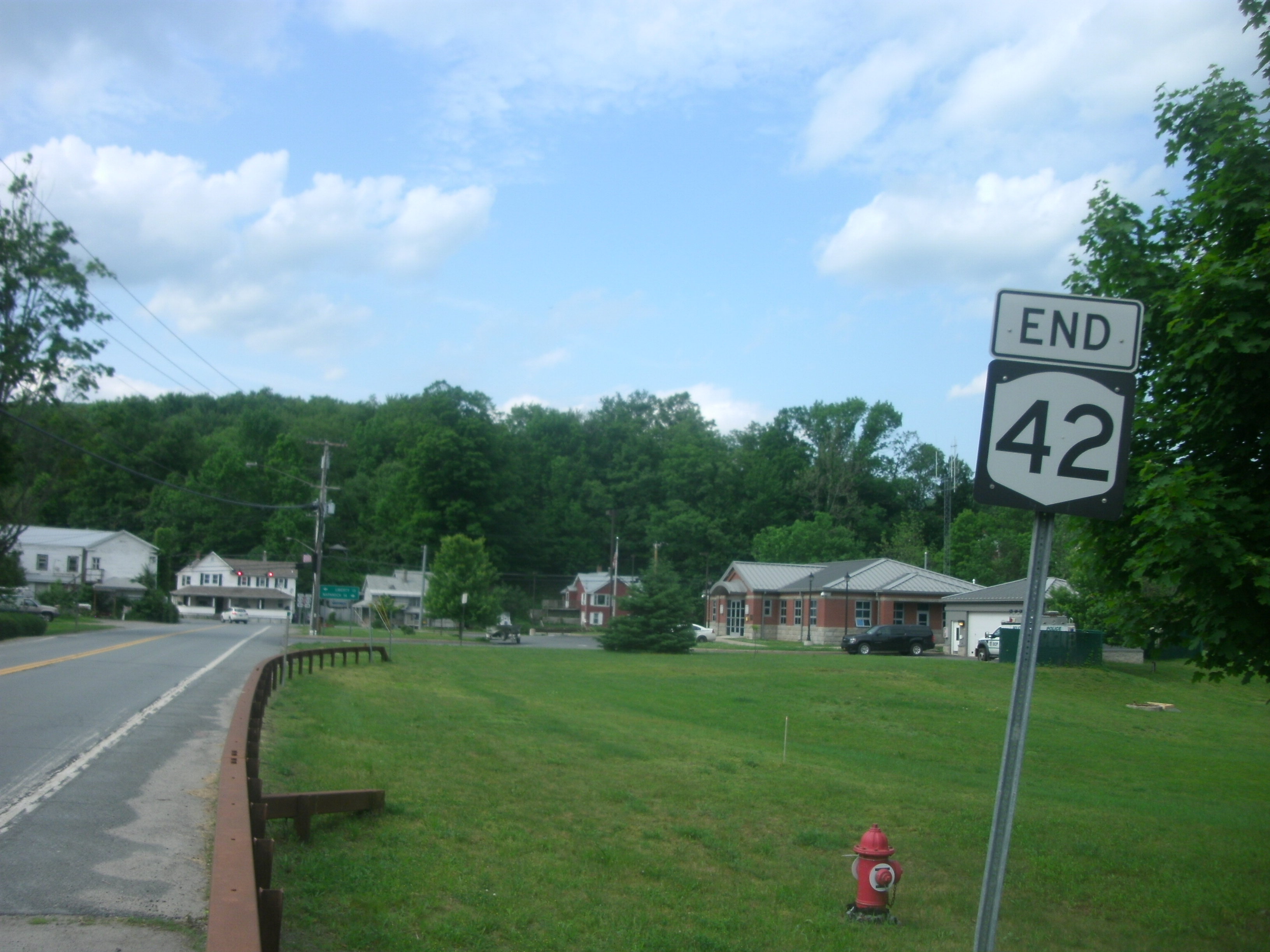 The northern terminus of New York State Route 42's southern segment in the hamlet of Grahamsville, New York.